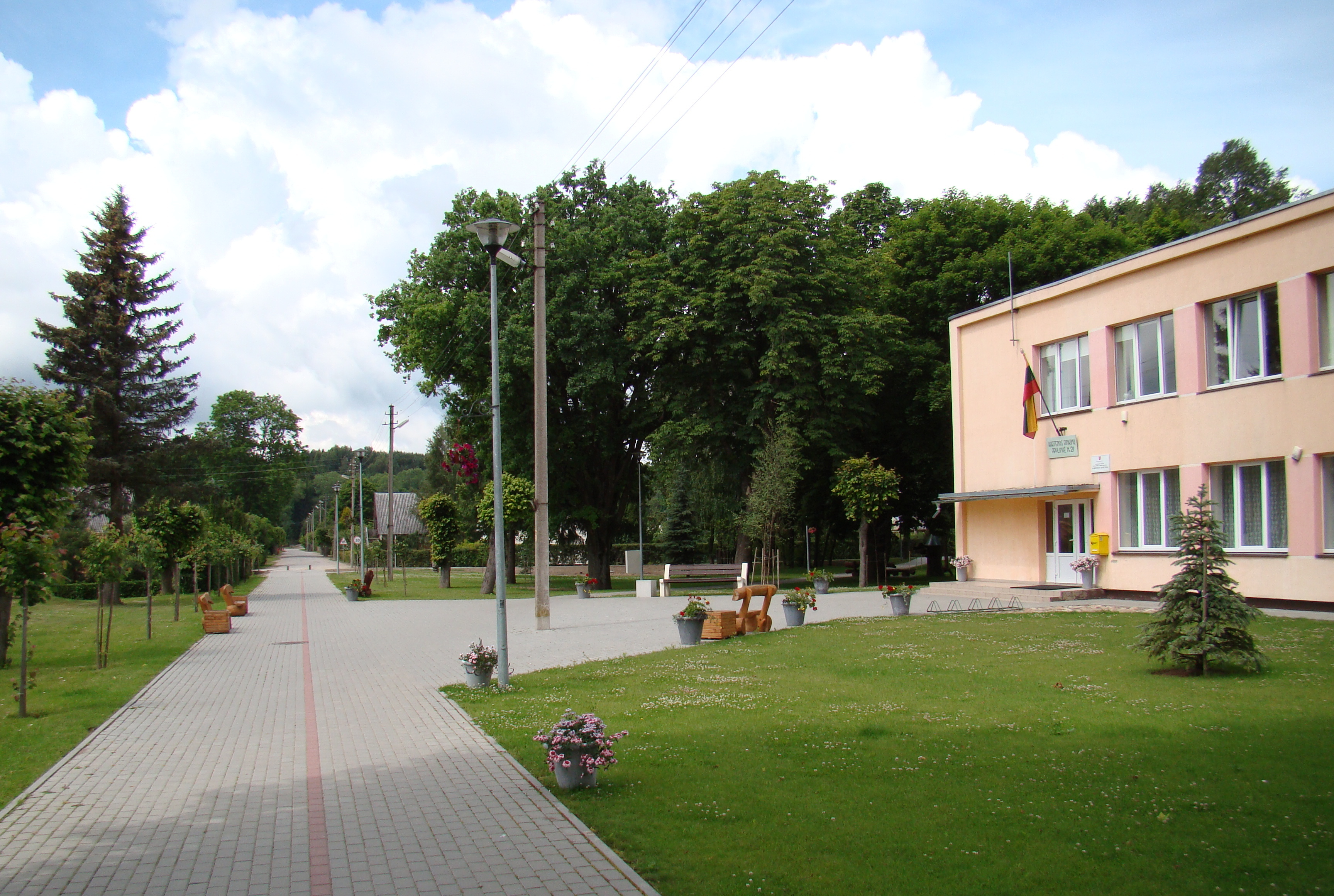 Kartena, Kretinga district, Lithuania